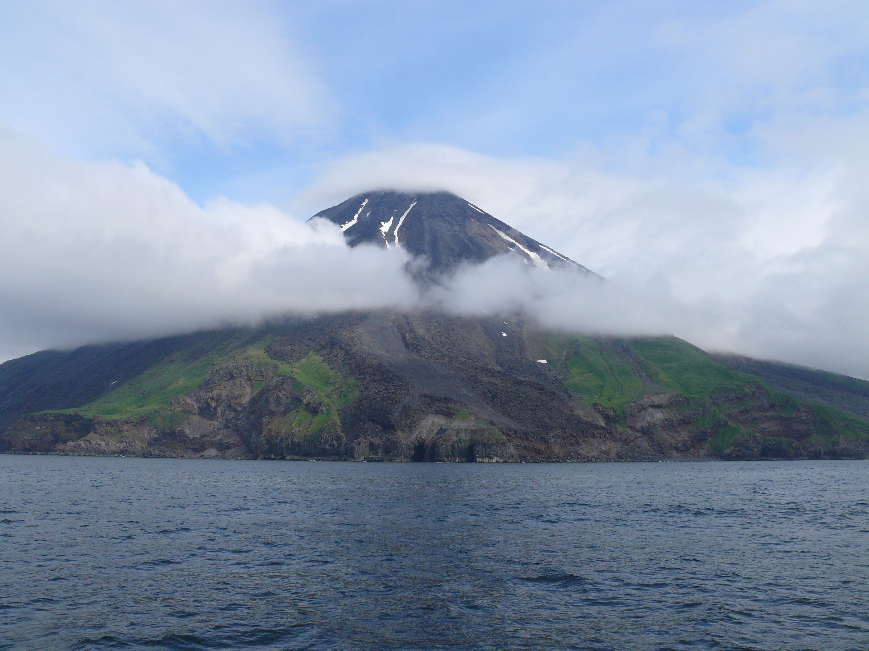 4,288-foot Mount Kanaga on Kanaga Island, Andreanof Islands group of the Aleutian Islands, Alaska.